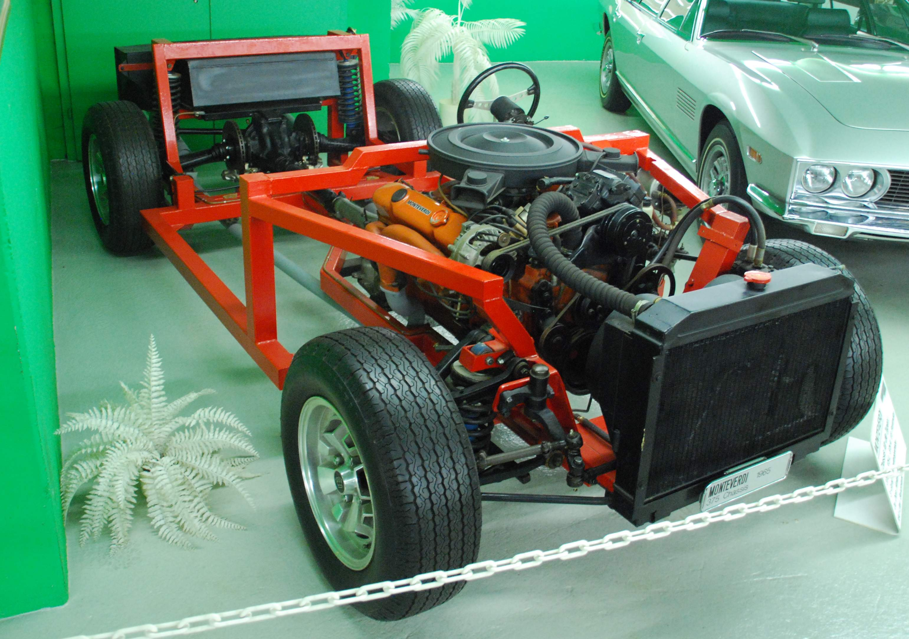 Tubular steel chassis of Monteverdi High Speed 375 series.